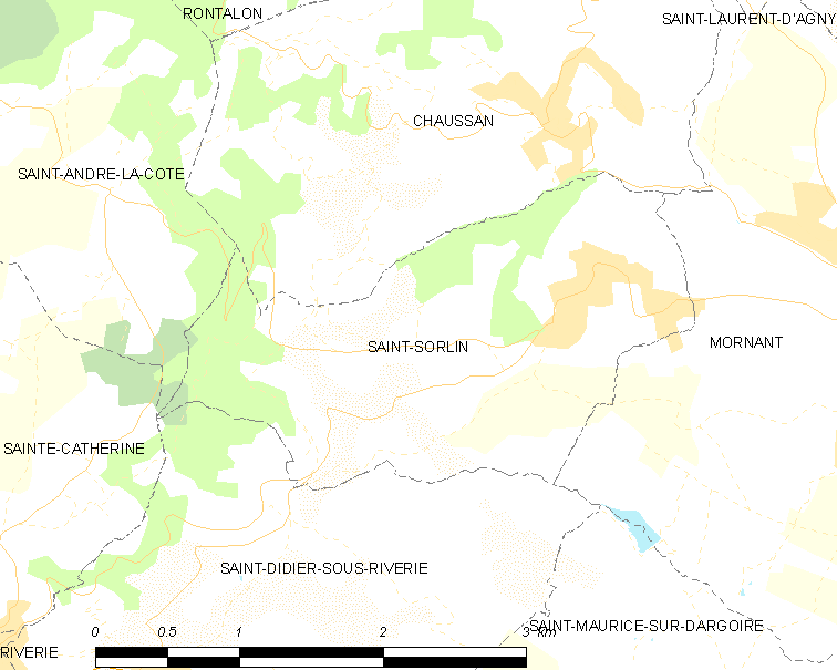 Map of French municipality